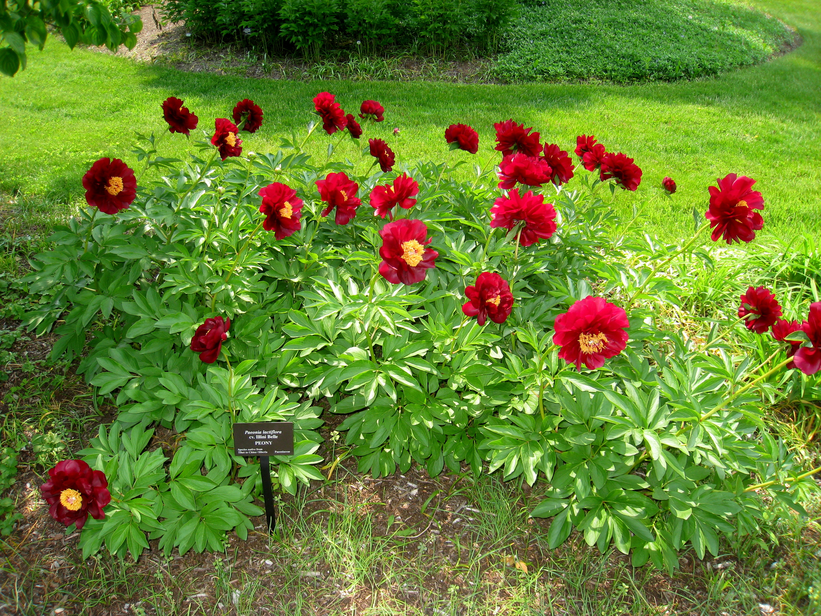 Paeonia Hybrid, in the Tower Hill Botanic Garden, Boylston, Massachusetts, USA.